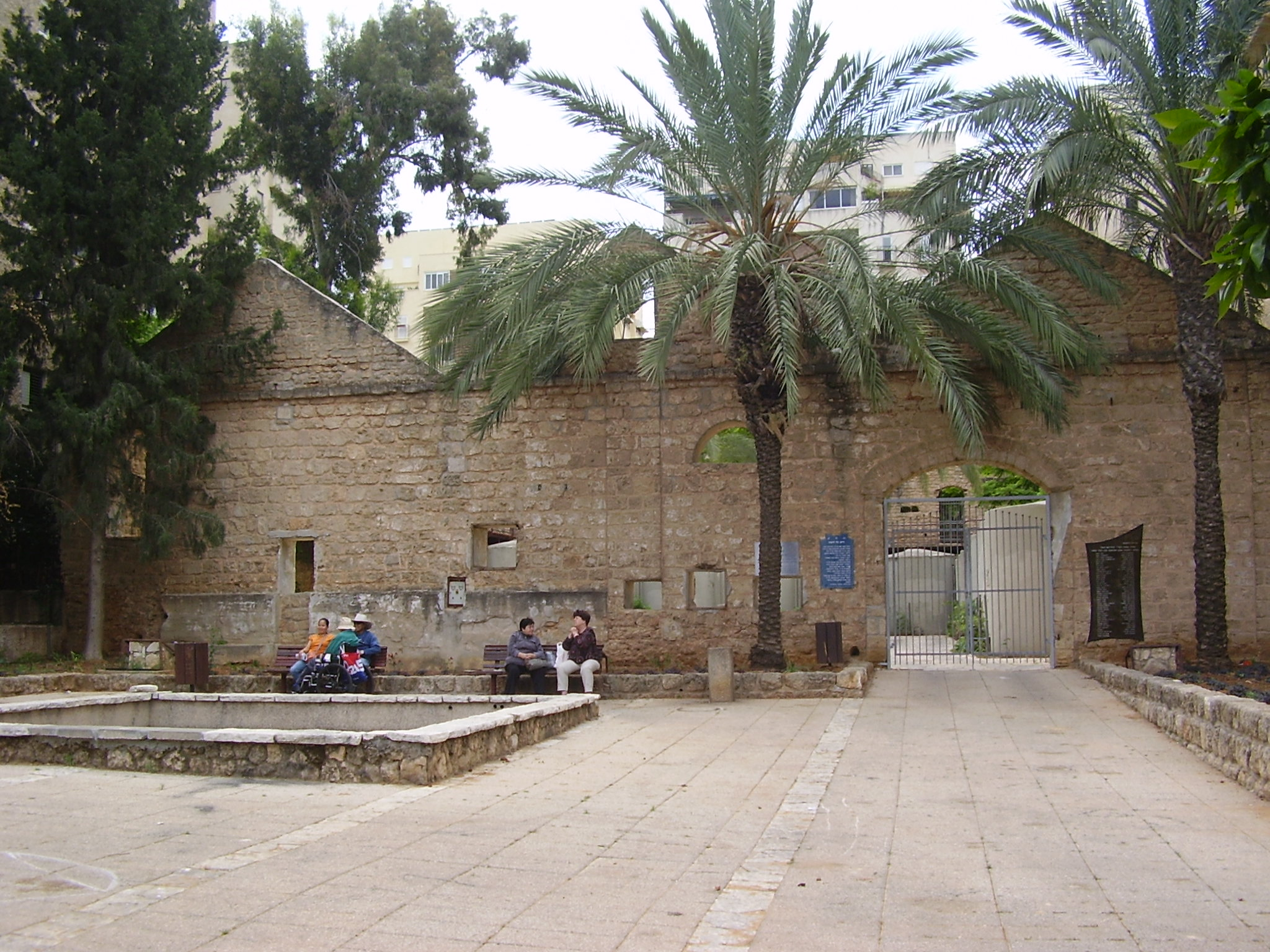 old vinery in rehovot